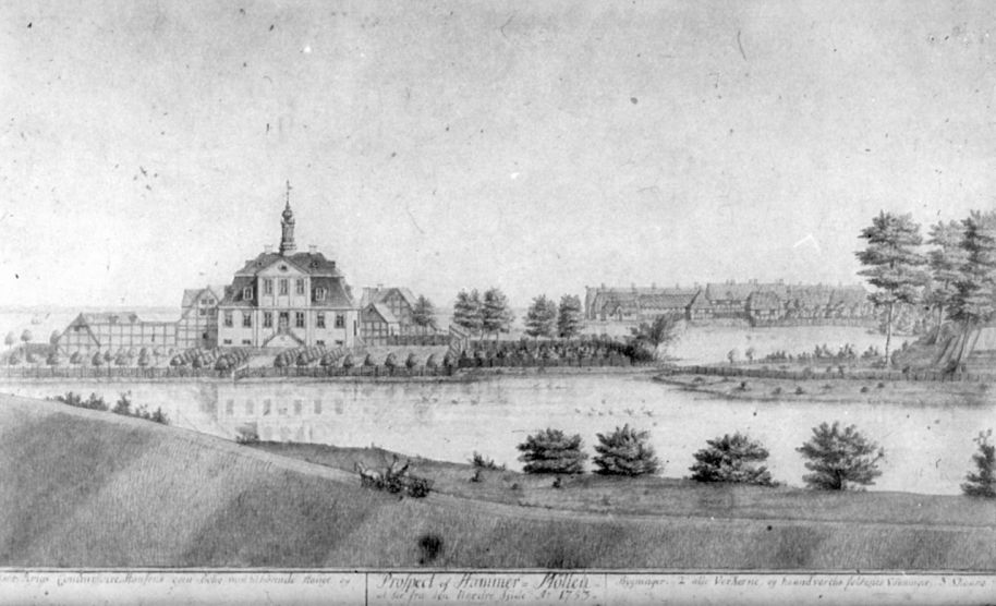 Stephen Hansen's original Hellebækgård in Hellebæk, Denmark as it appeared before Schimmelmann's rebuilding in 1768.